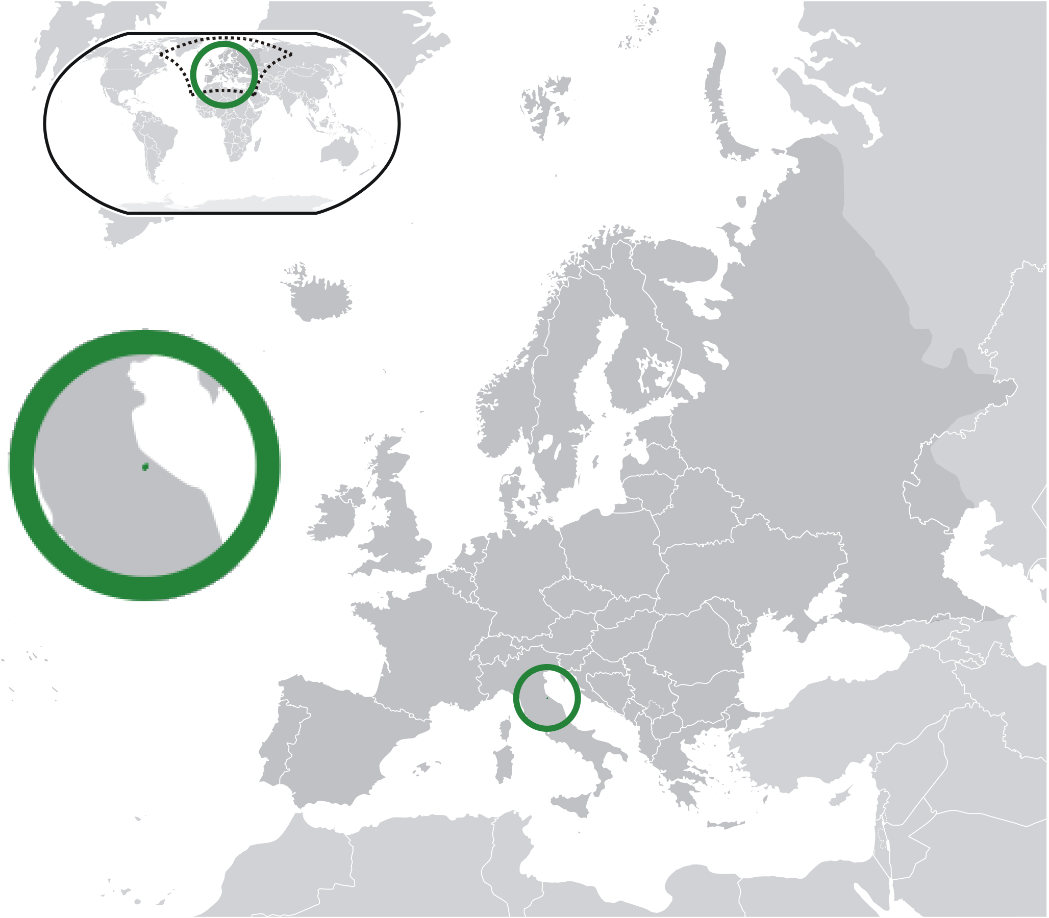 San Marino (dark green) / Europe (dark grey); inspired by and consistent with general country locator maps by User:Vardion, et al